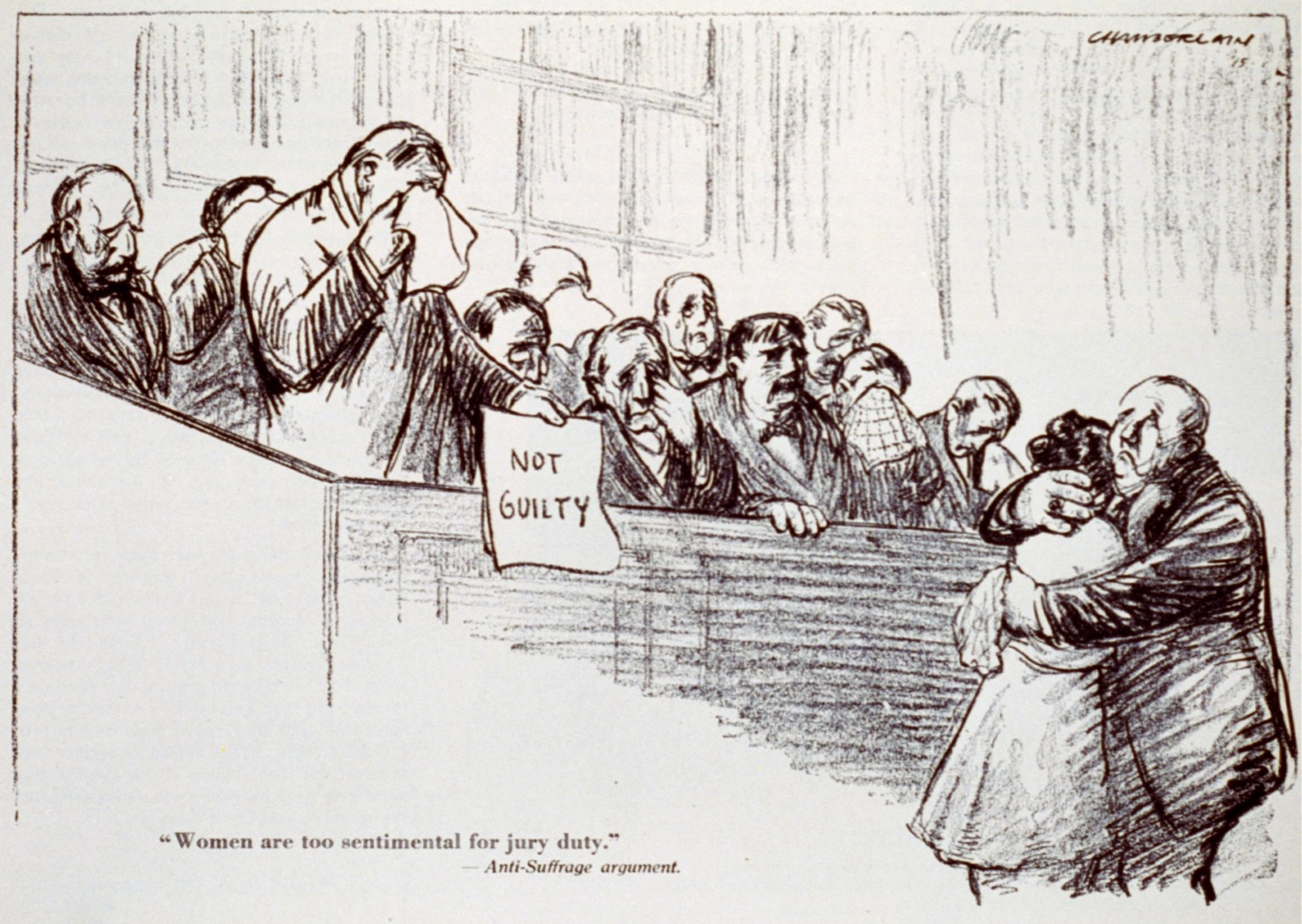 Title: "Woman are too sentimental for jury duty" --Anti-Suffrage argument / Chamberlain. Abstract/medium: 1 photomechanical print : offset.